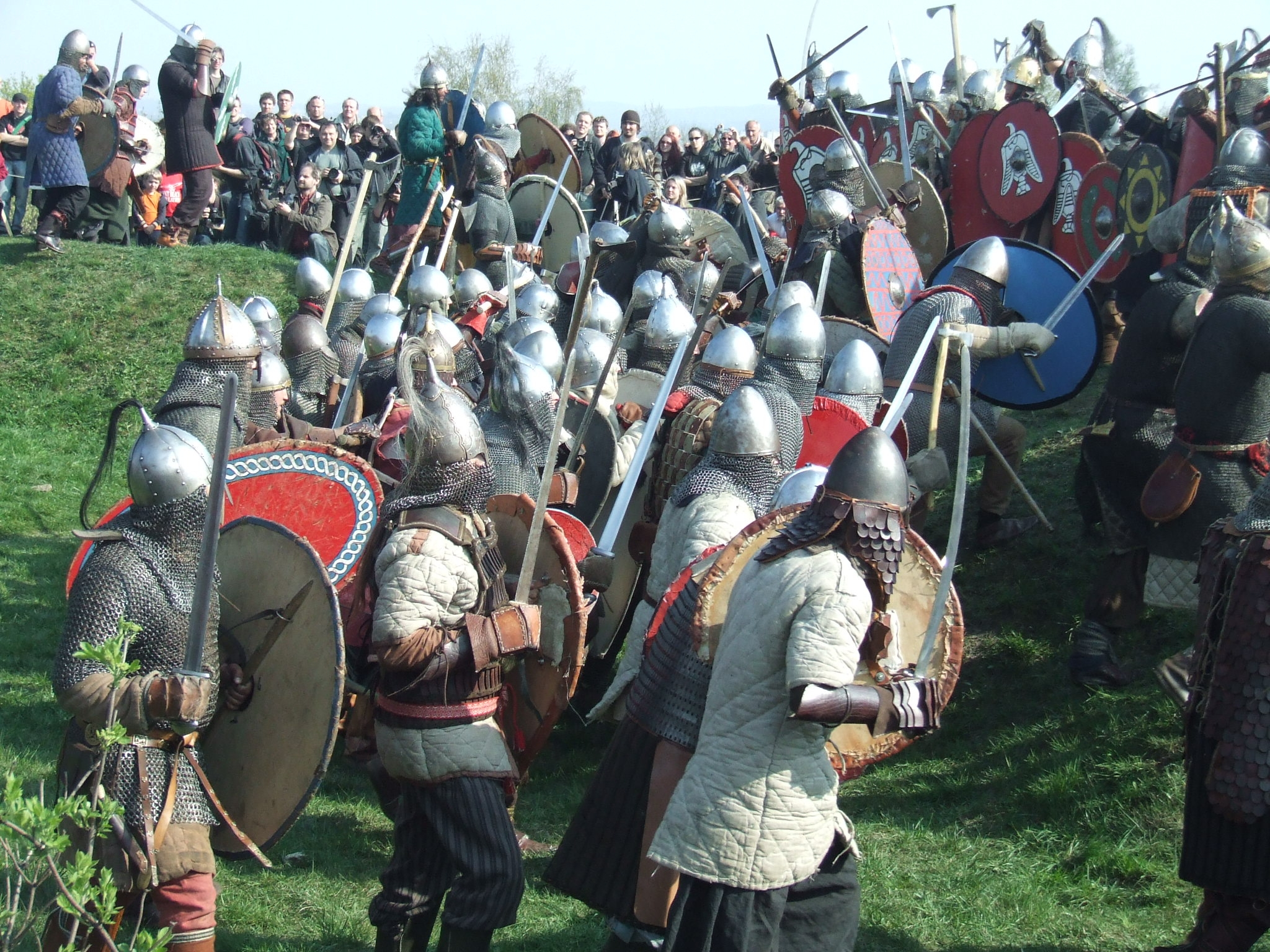 Kraków - Rękawka - festival 2009